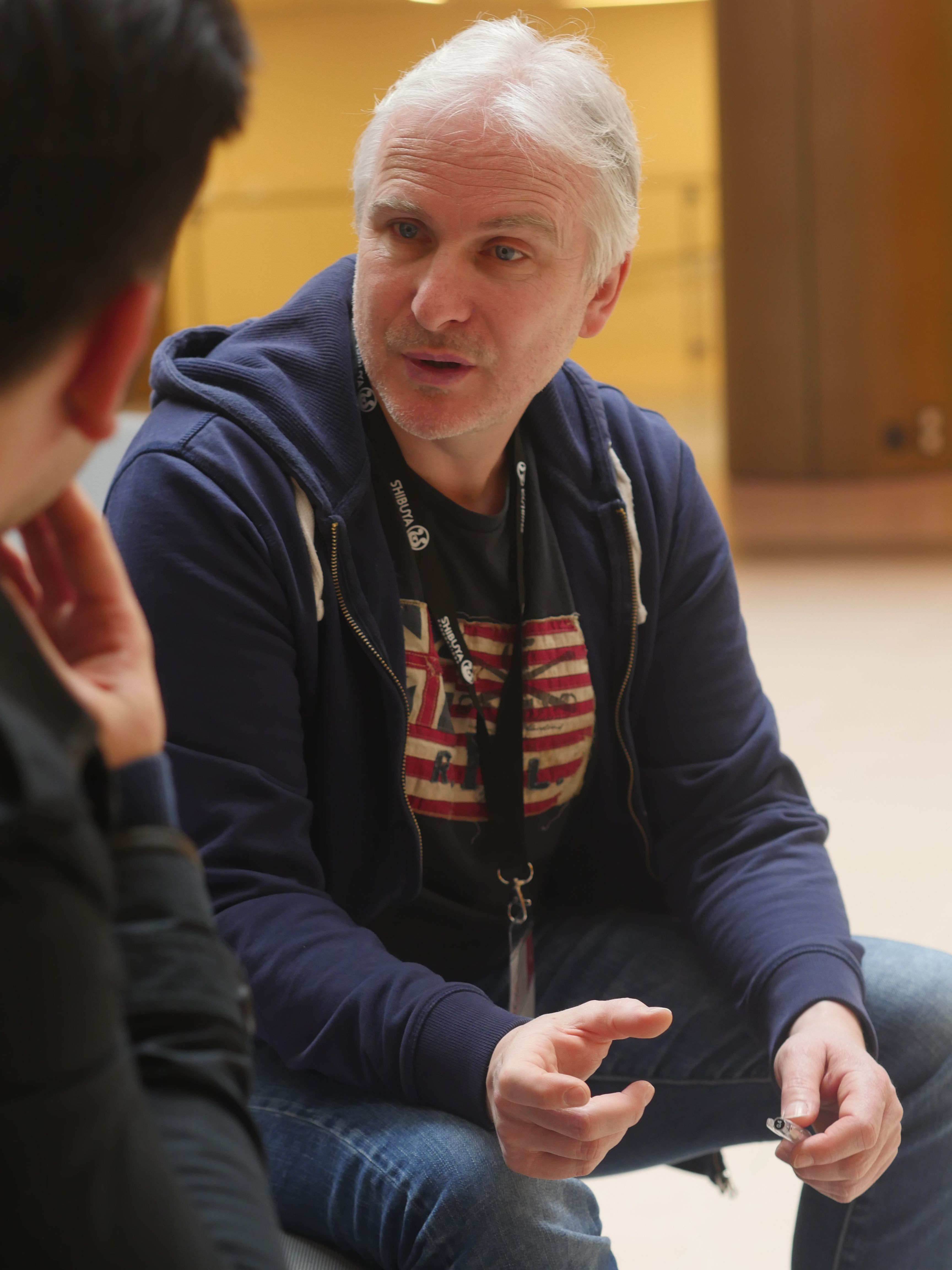 photograph taken at the 2015 edition of the "Monaco Anime Game International Conferences" (MAGIC) organized by Shibuya International in Monaco.